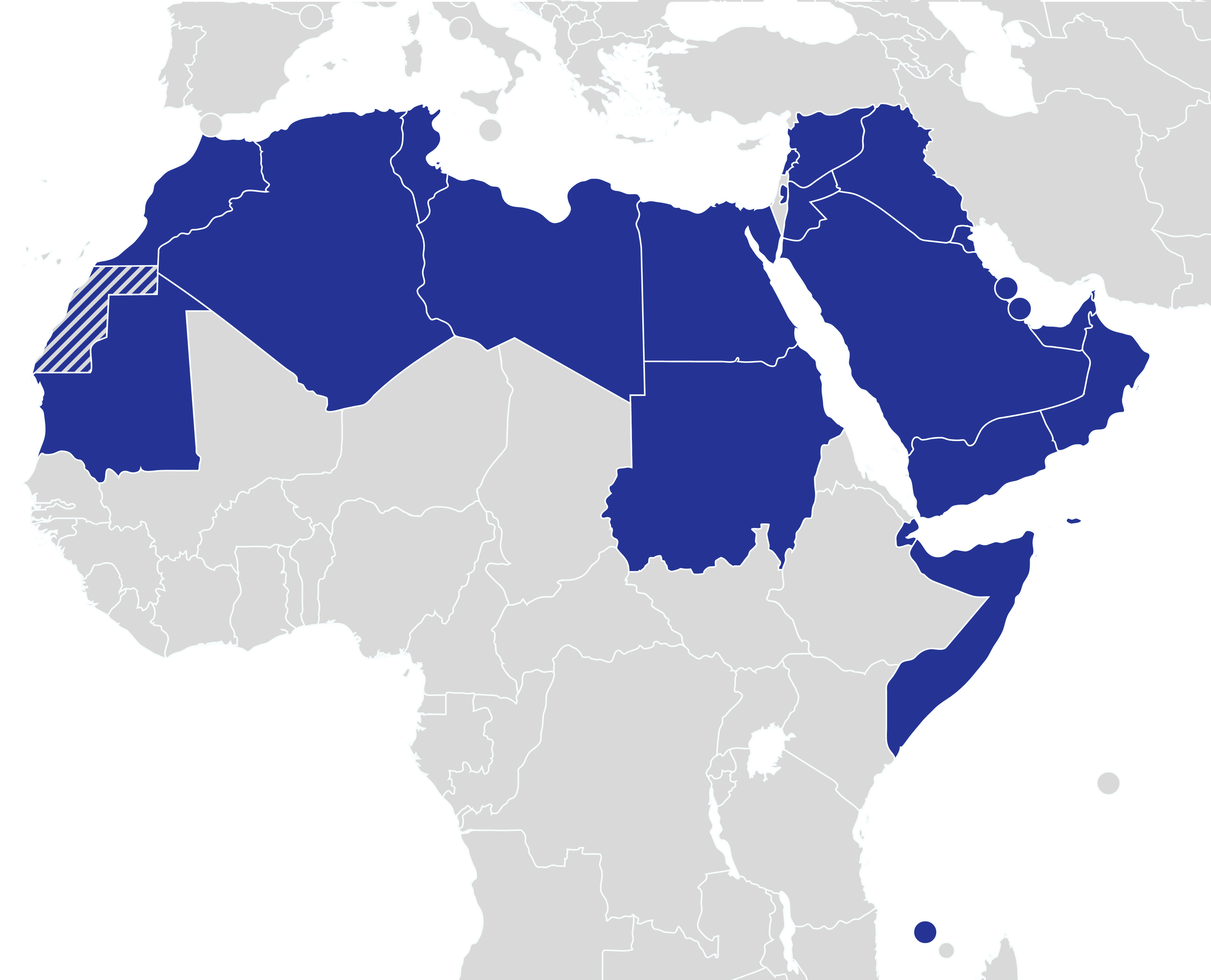 League of Arab States, Western Sahara striped.png